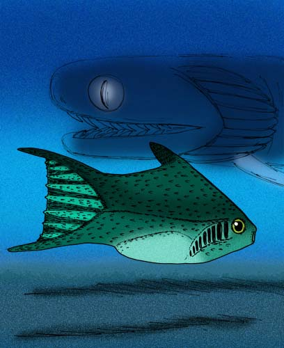 My reconstruction of the Early Devonian thelodont Furcacauda heintzae, of what is now Canada. (C) Stanton F. Fink